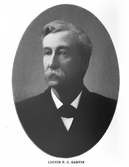 Lucius F. C. Garvin